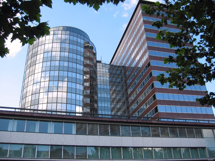 Building of "De Nederlandsche Bank" (Central Bank of the Netherlands), in Amsterdam, the Netherlands (main entrance at Westeinde 1, but this photo is showing the south side, taken from Stadhouderskade). Photograph taken by me (User:Mtcv) on 2004-07-26.